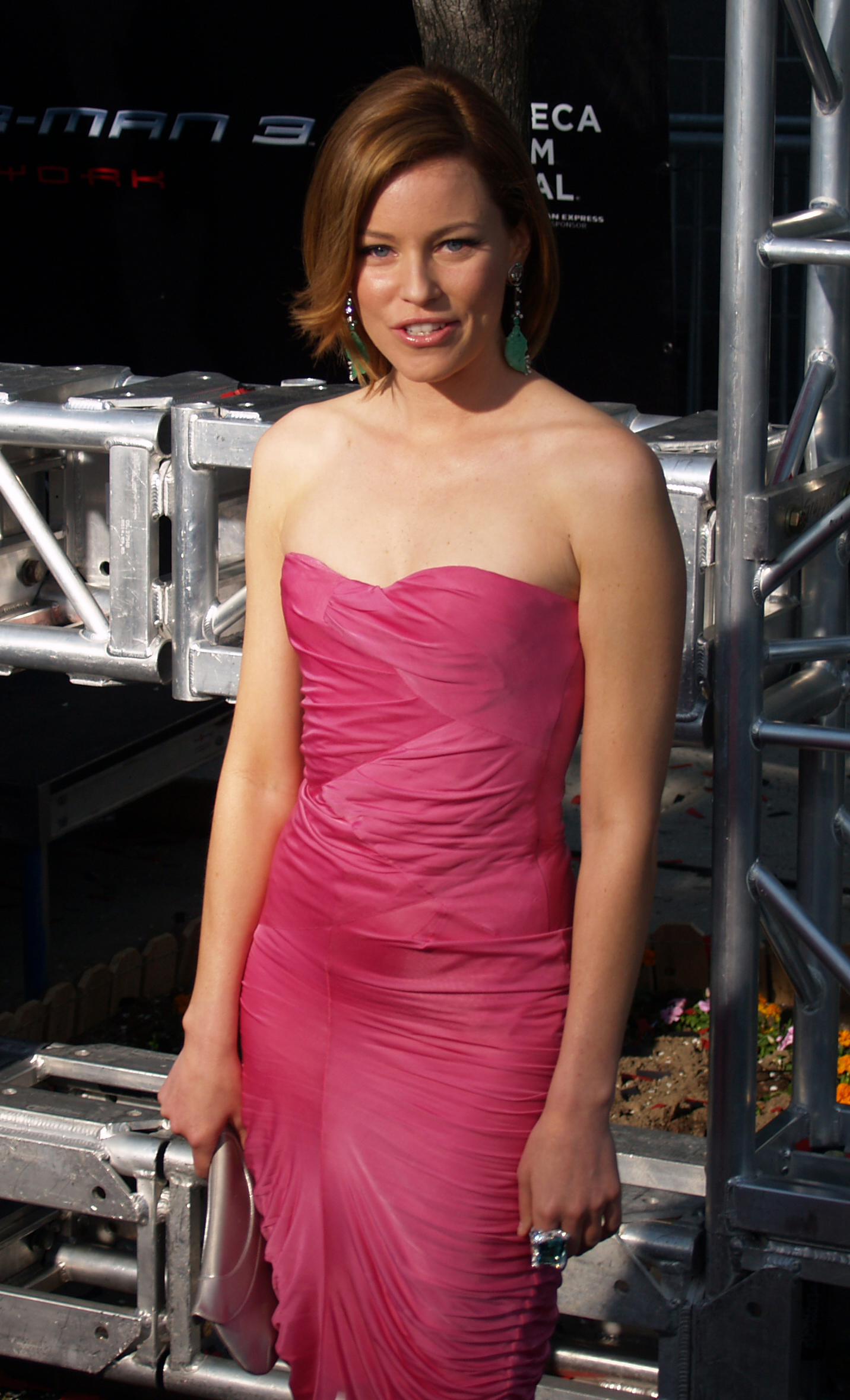 Elizabeth Banks